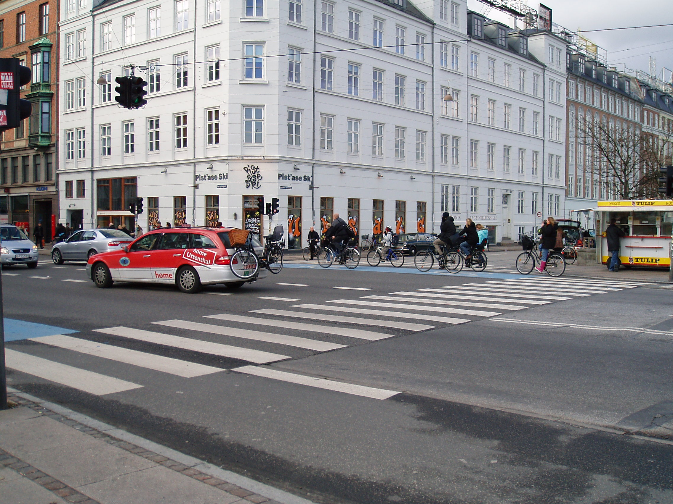 Crosswalk in an intersection in Copenhagen. Nørrebrogade view from Peblinge Sø.